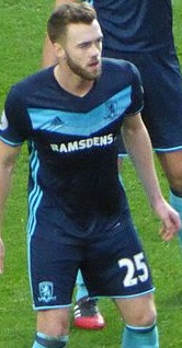 Calum Chambers featuring for Middlesbrough in 2016